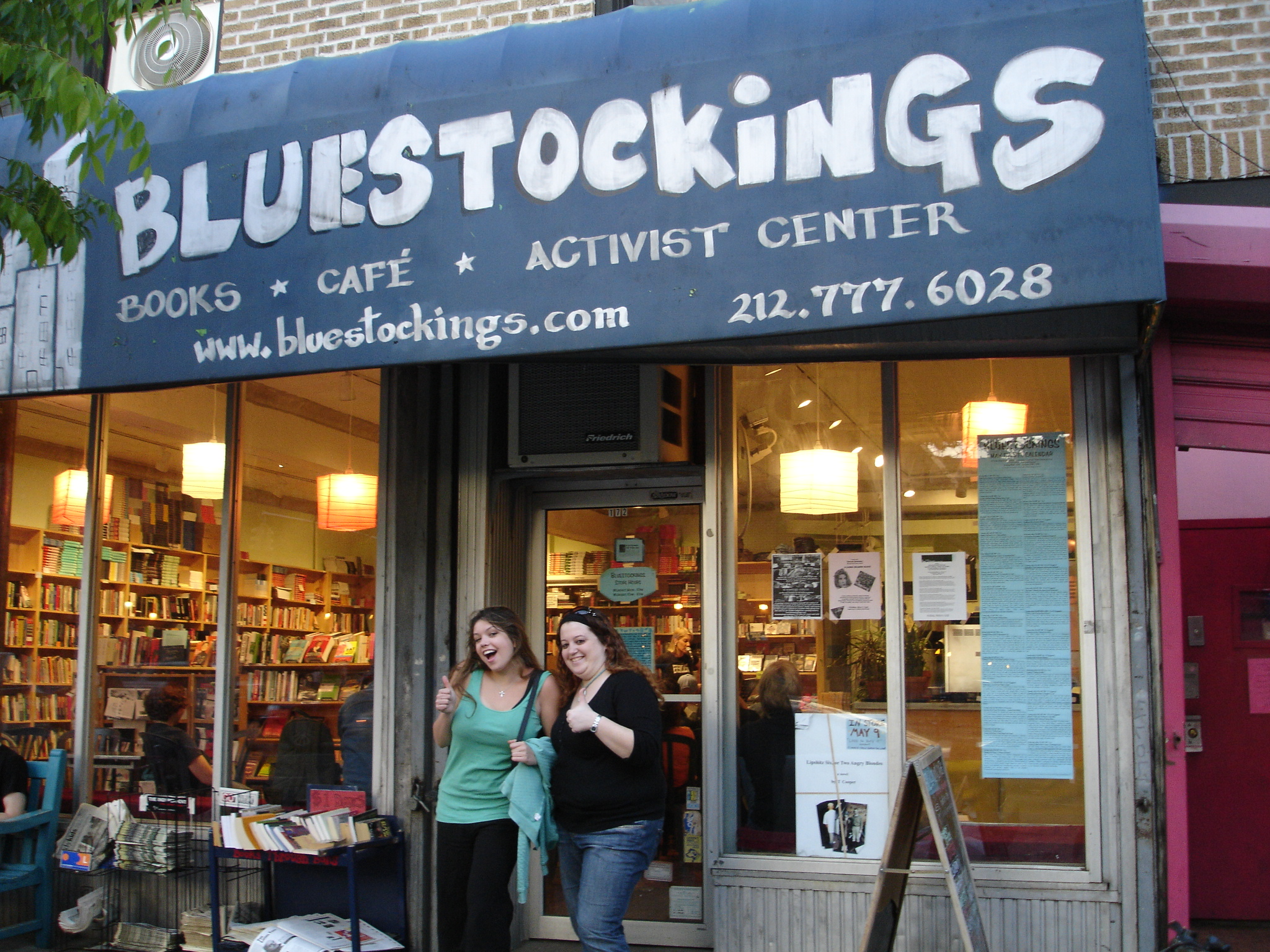 interesting find on the LES